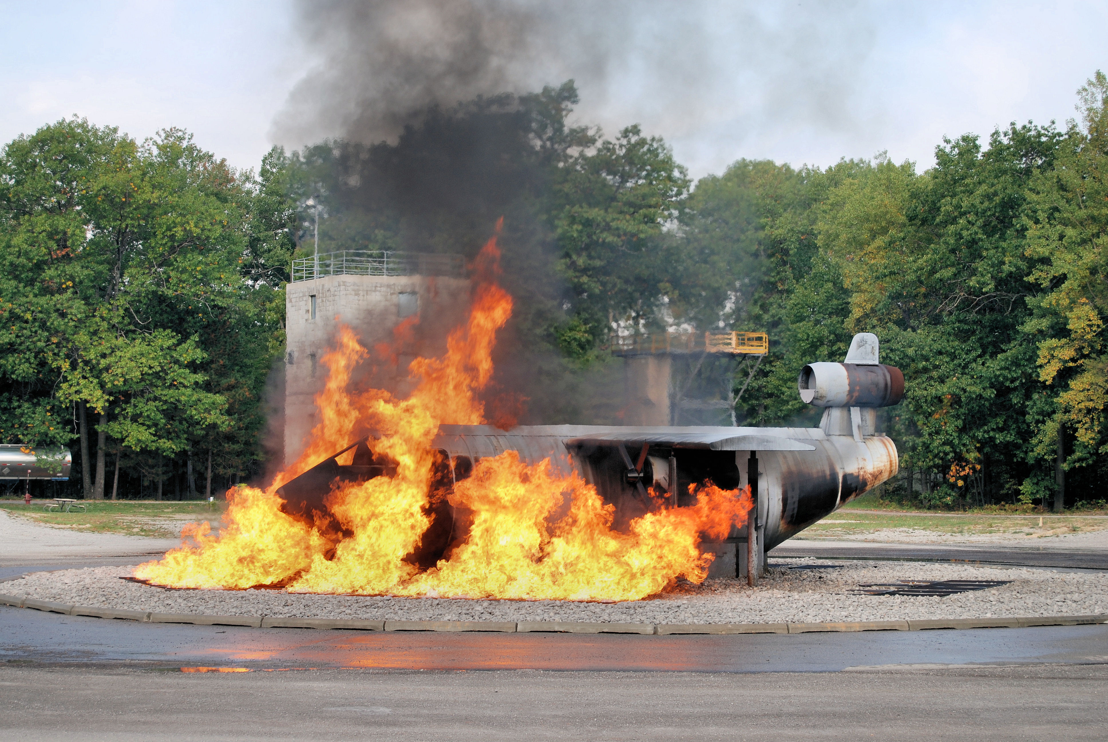 The Alpena CRTC boasts a multitude of fire fighter training aids including our Aircraft Fire Training Simulator. The aircraft mock-up is used to train fire fighters in actual hands-on, live fire in aircraft emergencies. Using environmentally friendly Liquefied Propane Gas (LPG) in a liquid and vapor state, fire fighters can practice extracting occupants from aircraft.